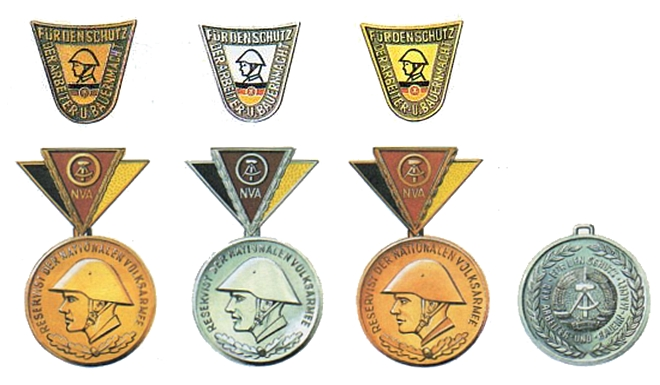 Reservists badge of the GDR National People's Army until 1990 (three classes): upper row as badge (1966-1968); lower row as medal (1968-1990) in Bronze, Silver and Gold (averse) respectively (reverse ) in Silver.